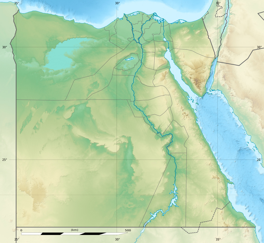 Physical location map of Egypt. Showing new governorate boundaries since 14 April 2011, after the dissolution of the 6th of October and Helwan Governorates. Also showing the Libyan Desert and its northern Qattara Depression, and the northern Eastern Desert.